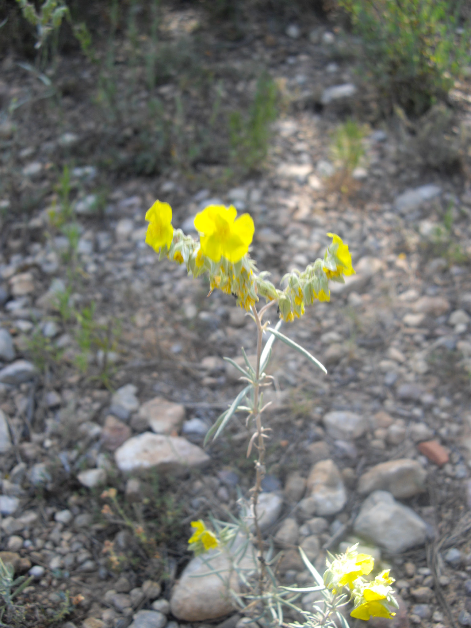 Helianthemum syriacum